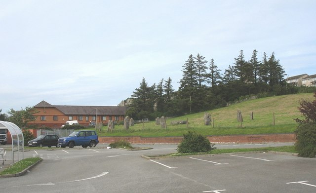 Ysbyty Cefni Hospital This recently built community hospital stands behind the Somerfield supermarket. It replaced two out-dated unit, the Druid and Cefni Hospitals.